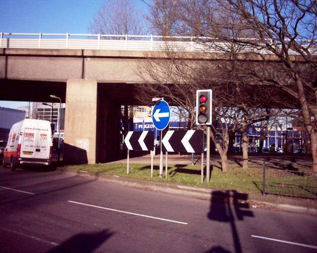 Chiswick Roundabout A major road junction where the A4 (Great West Road), A205 (South Circular Road), A315, and the A406 (North Circular Road) all meet. With just for good measure the M4 motorway is the flyover pictured.